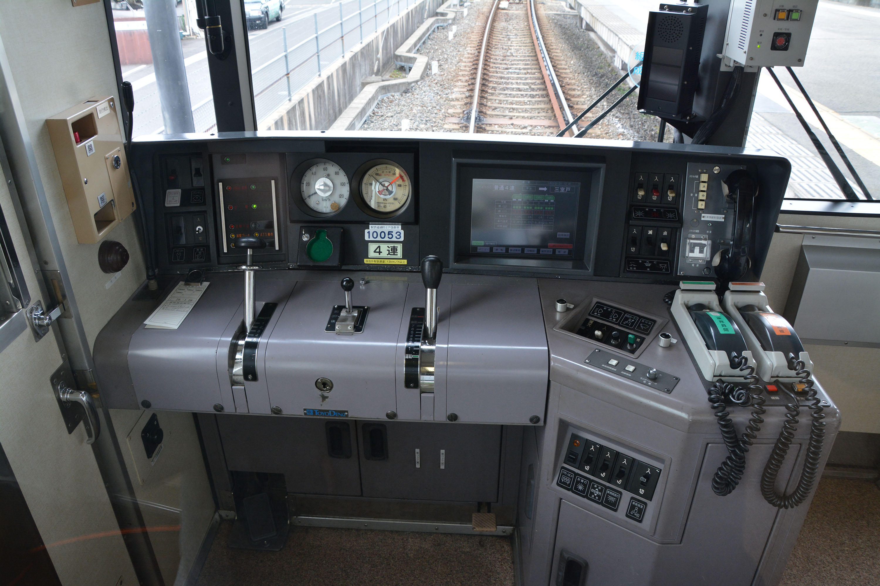 The driving cab interior of Keihan Electric Railway 10000 series car 10053 (of set 10003)